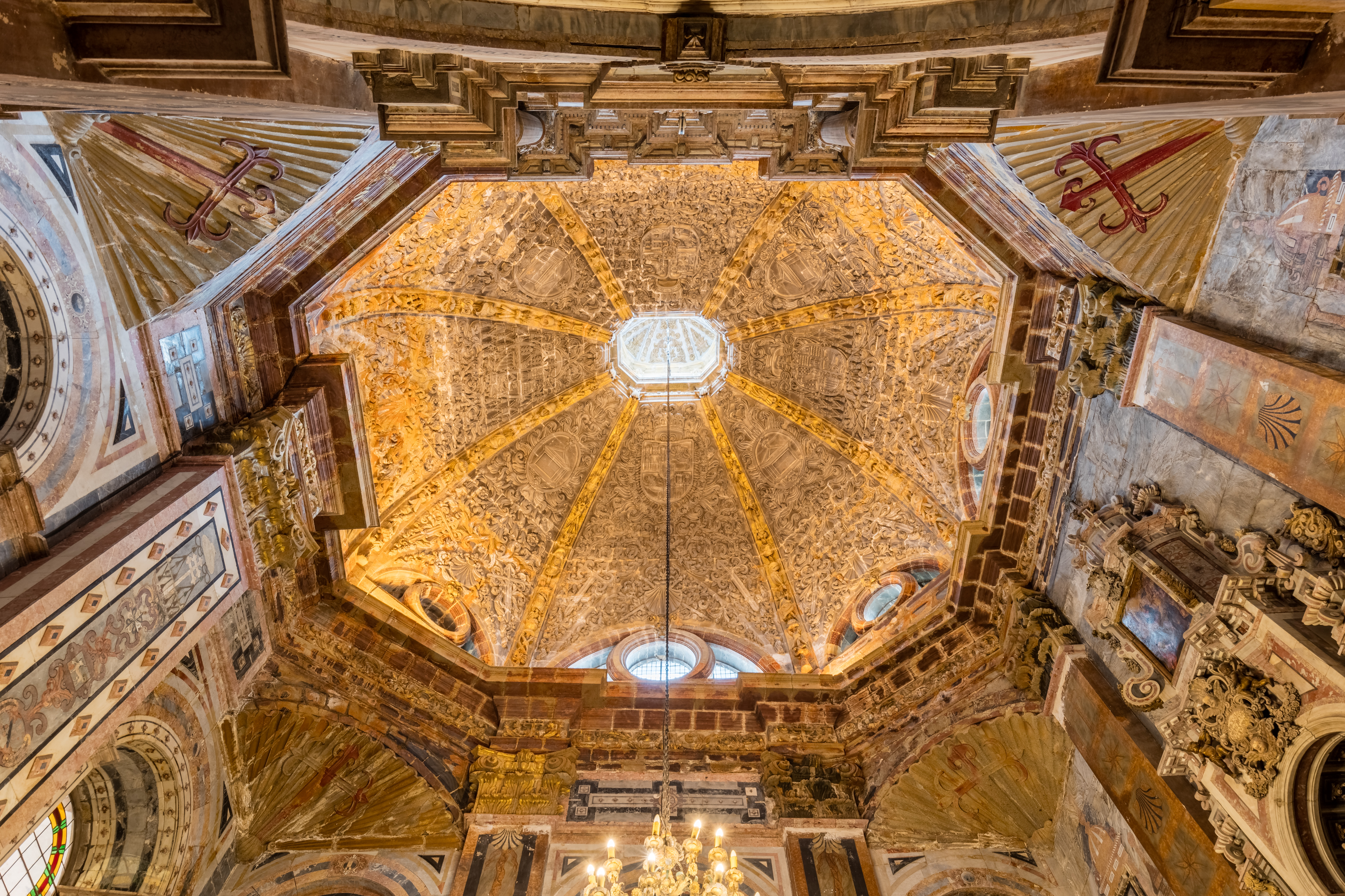 Cathedral, Santiago de Compostela, Spain